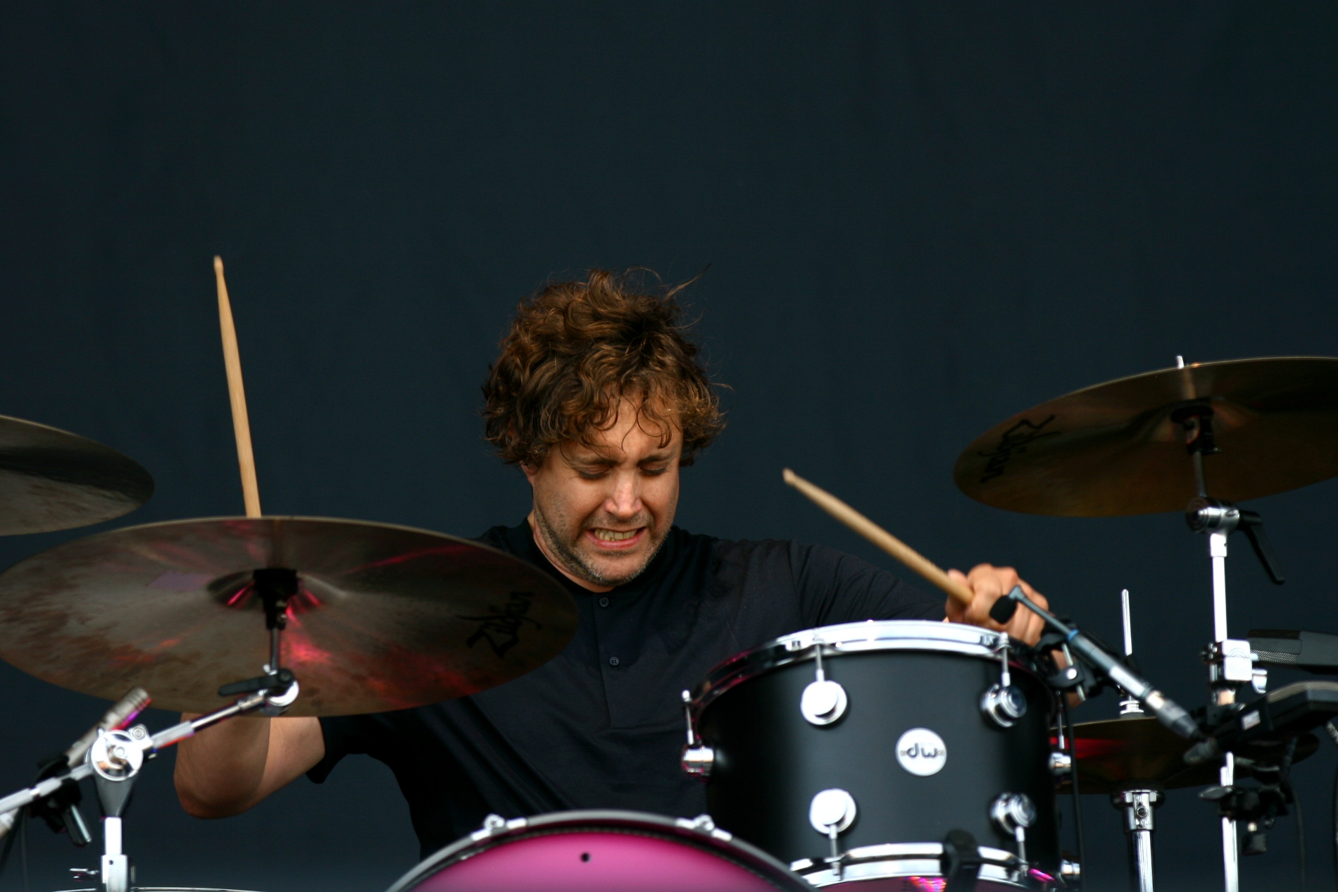 Ian Matthews, drummer of Kasabian, on the Centerstage of Rock im Park Festival 2014. Festivalsommer This photo was created with the support of donations to Wikimedia Deutschland in the context of the CPB project "Festival Summer".